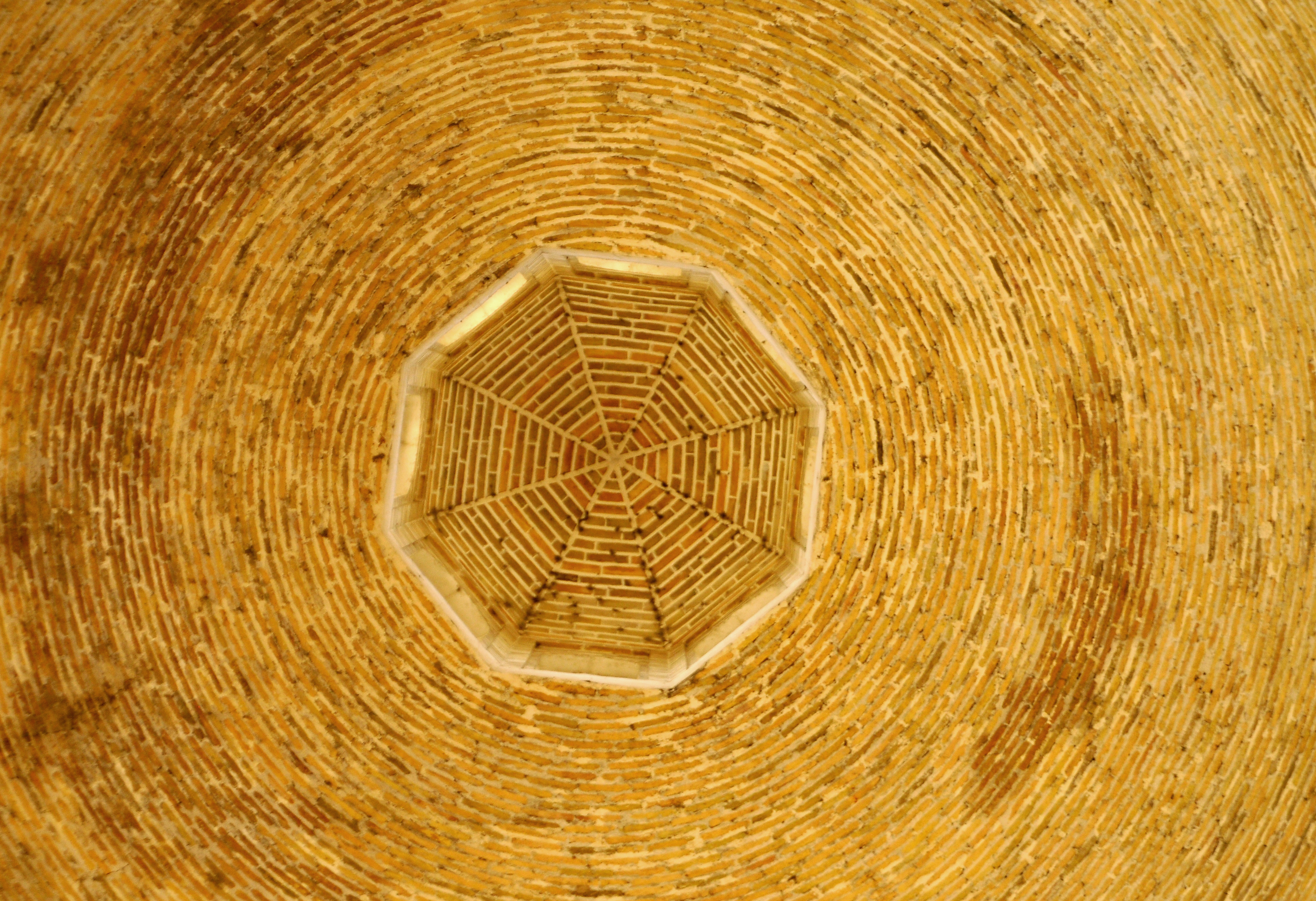 Interior of a dome in the Tok-i-Telpak Furushon mall. Bukhara, Uzbekistan